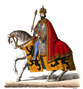 Baldwin VI, Count of Hainaut